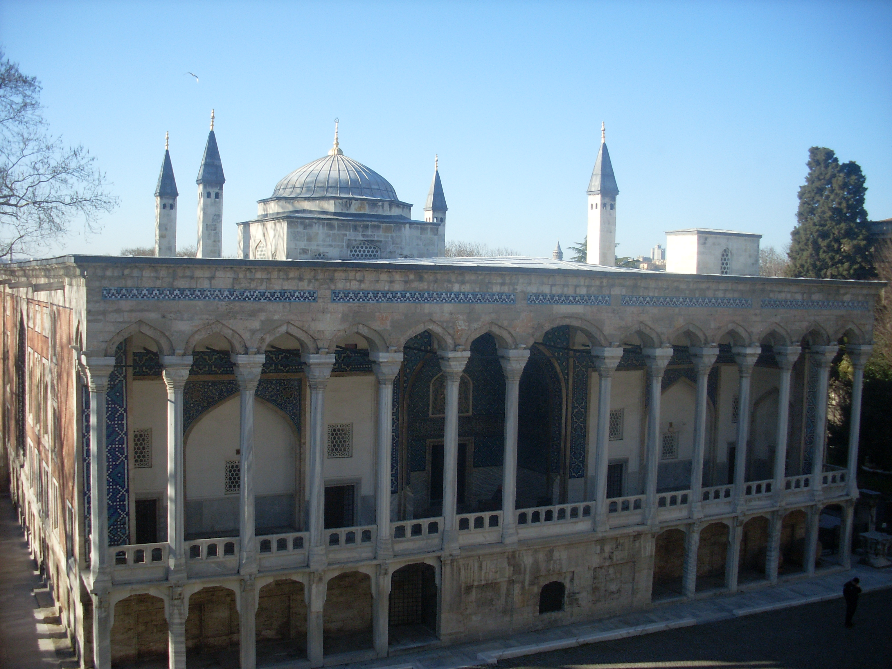 İstanbul - Tiled Kiosk r1 - Mar 2013